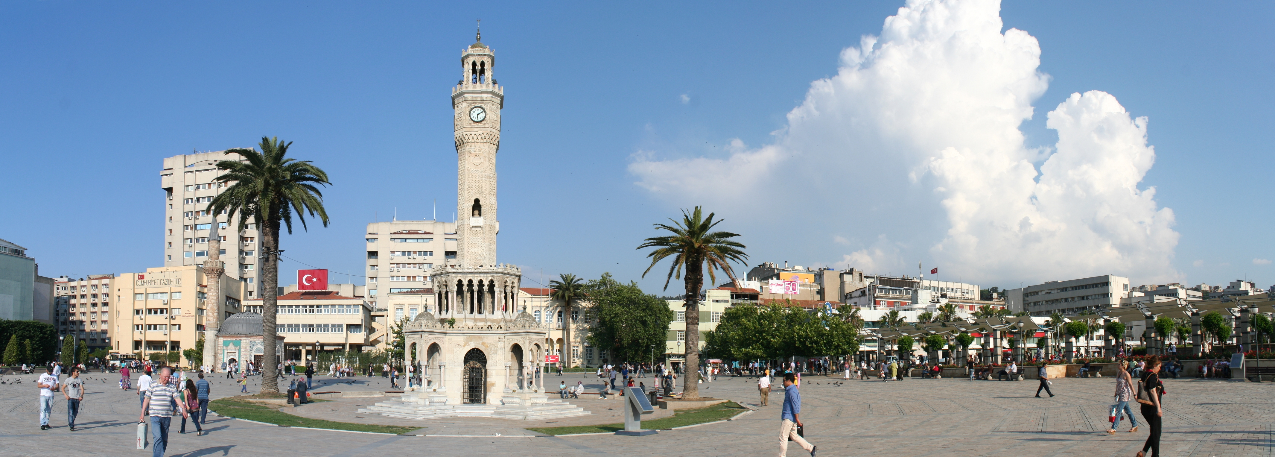 Izmir / Turkey - Konak Square with Clock Tower